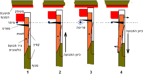 hebrew version of Image:Jack action.png